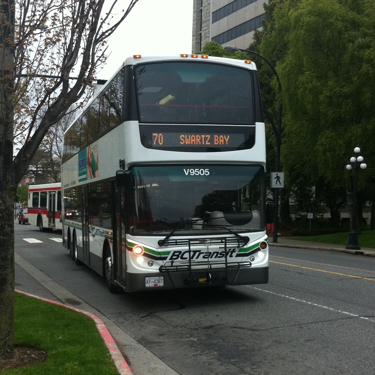 Clip of Victoria Regional Transit double decker